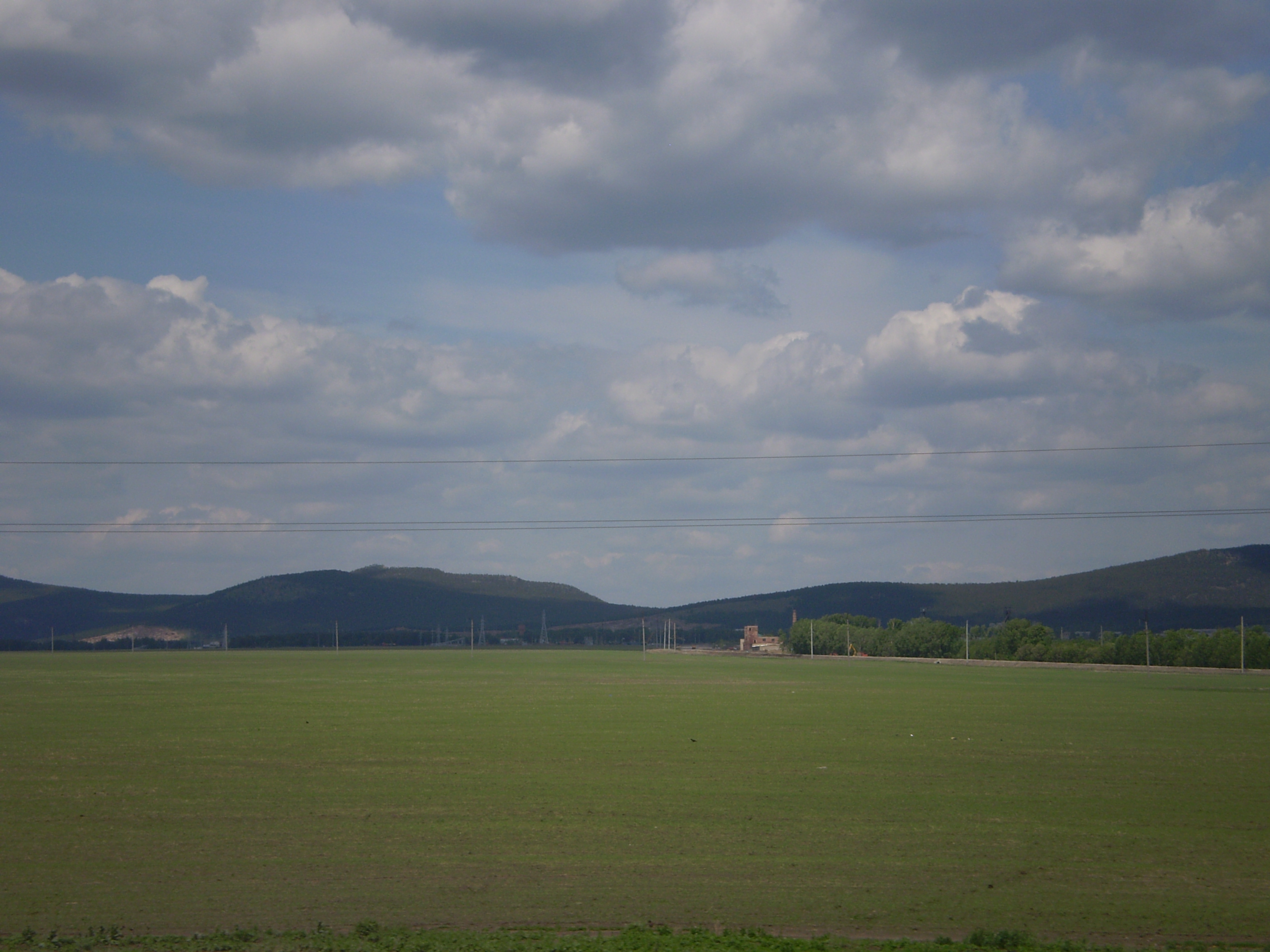 Borovoje mountains northern Kazakhstan. View from the train window